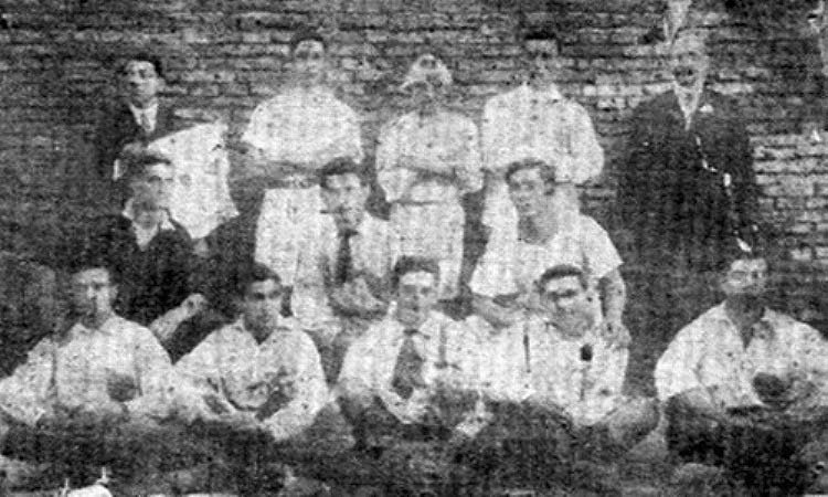 A line up of Argentine Club Atlético Huracán's football team. (Up): Levov, Berni, López. (Middle): Fariña, Villar, Fernández. (Down): Salgado, Dellisola, Lujan, Gurruchaga, Cambiasso.